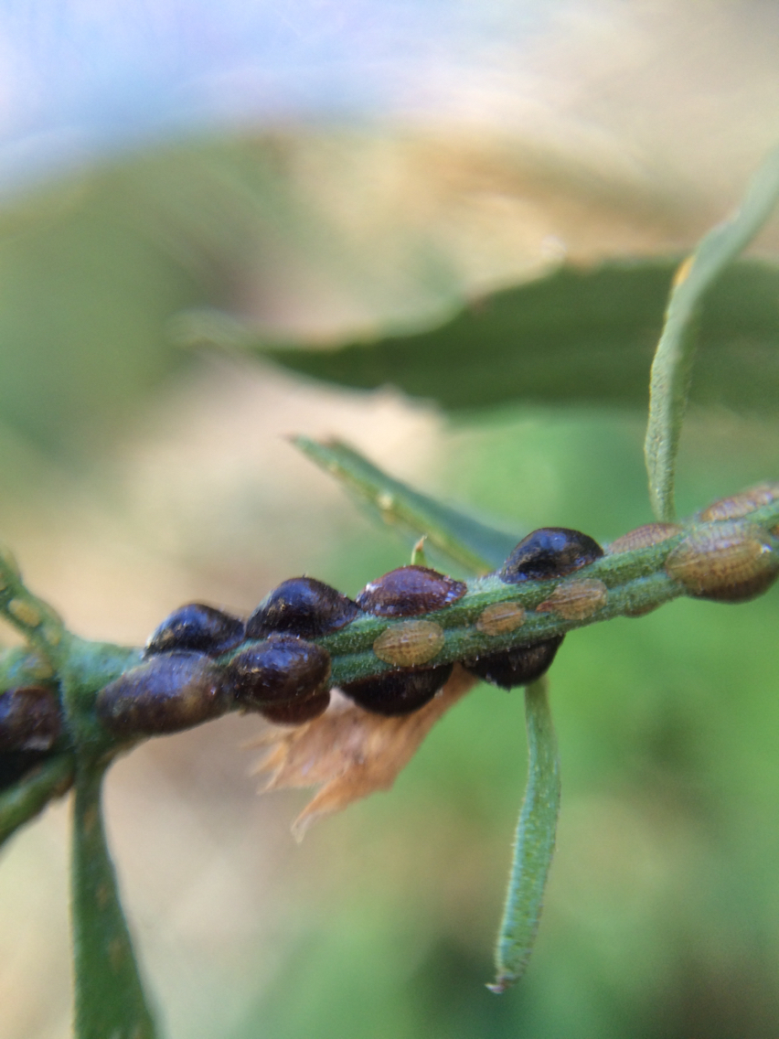 Parasaissetia nigra - Black Scale. Species of insect.